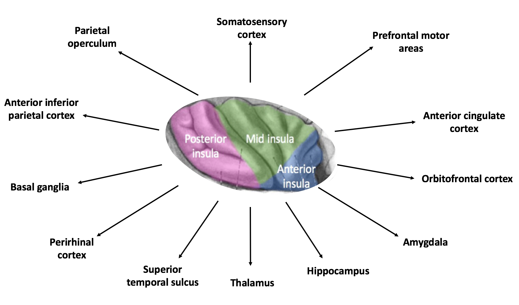 The insula, center, connects to many different regions within the brain, which are noted in black text.